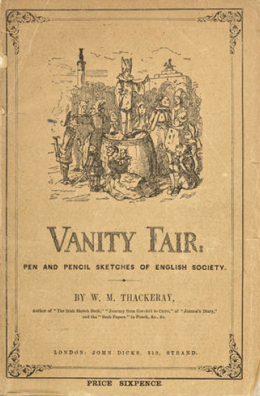 Cover of "Vanity Fair" by William Thackeray, published by John Dicks, London